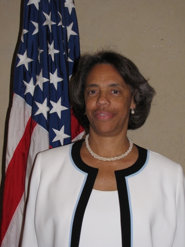 Marcia Stephens Bloom Bernicat, U.S. diplomat. As of 2008, U.S. Ambassador to Senegal and Guinea-Bissau.